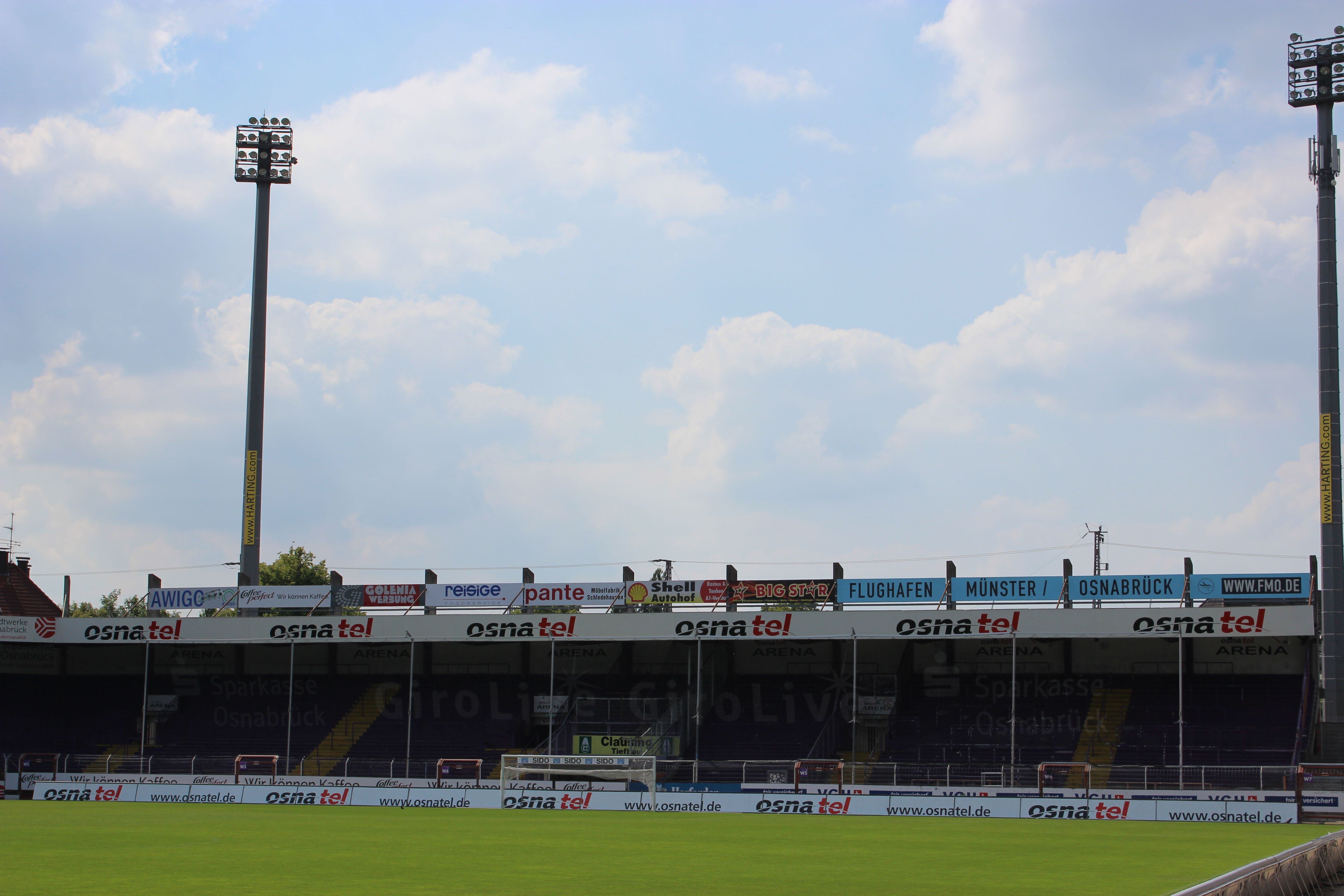 Osnabrück: osnatel Arena